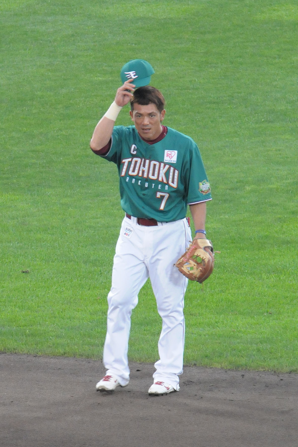 Kazuo Matsui, infielder of the Tohoku Rakuten Golden Eagles, at Akita Prefectural Baseball Stadium.